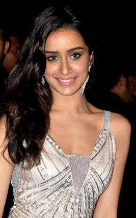 Shraddha Kapoor at Filmfare Awards in 2014.